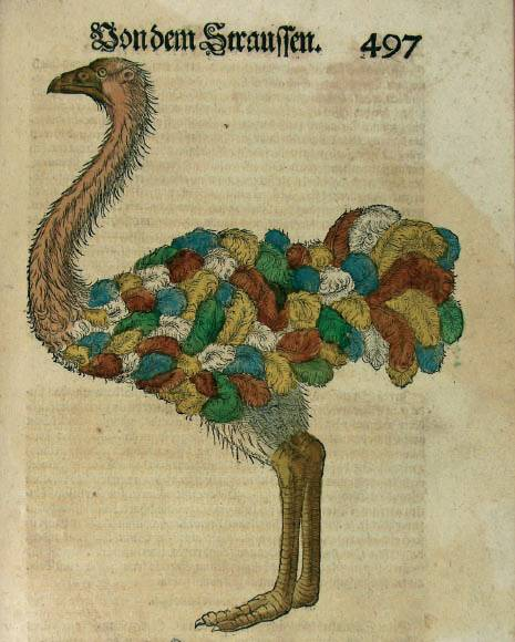 Ostrich, woodcut, hand-coloured, page of